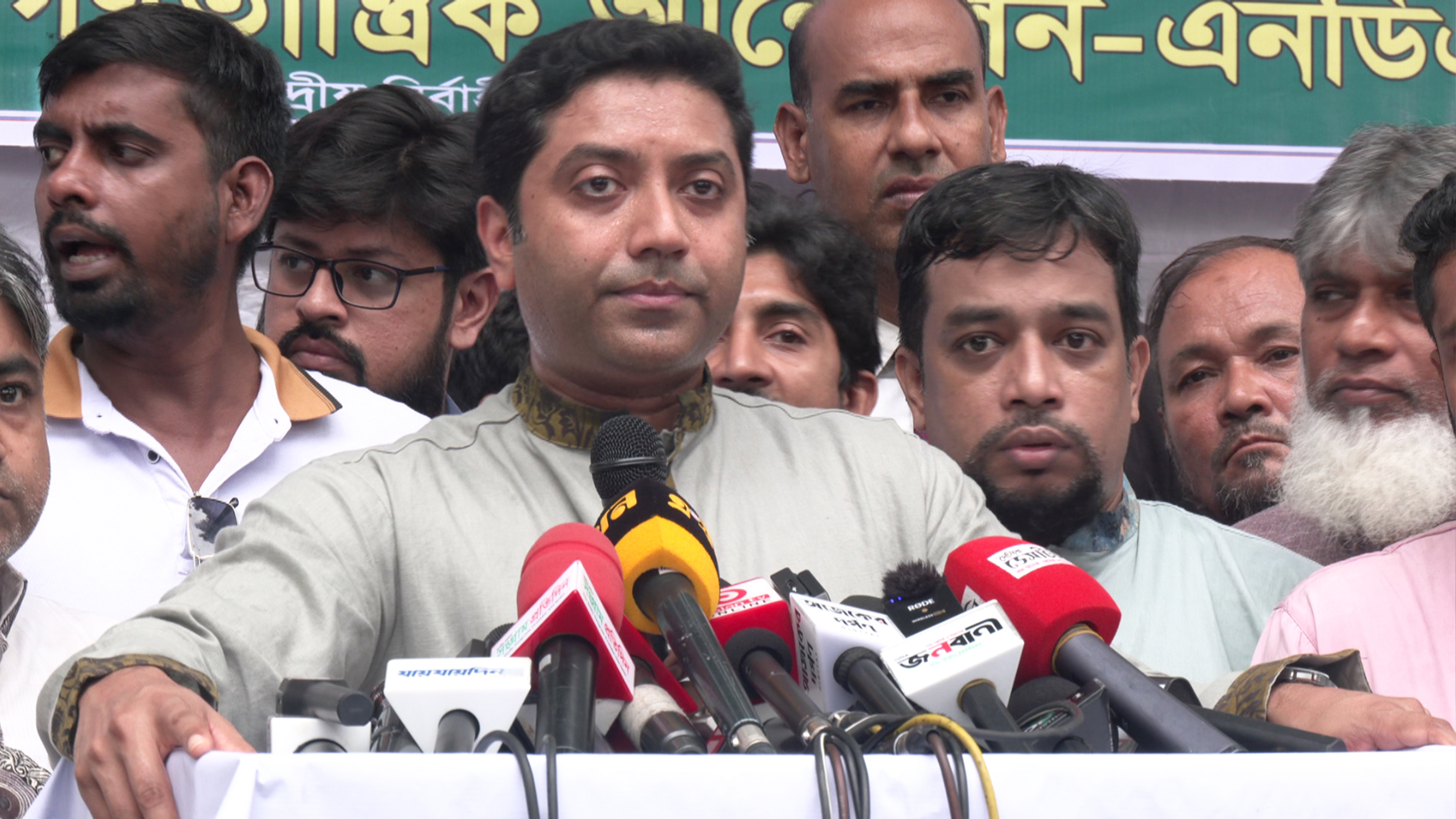 Bobby Hajjaj